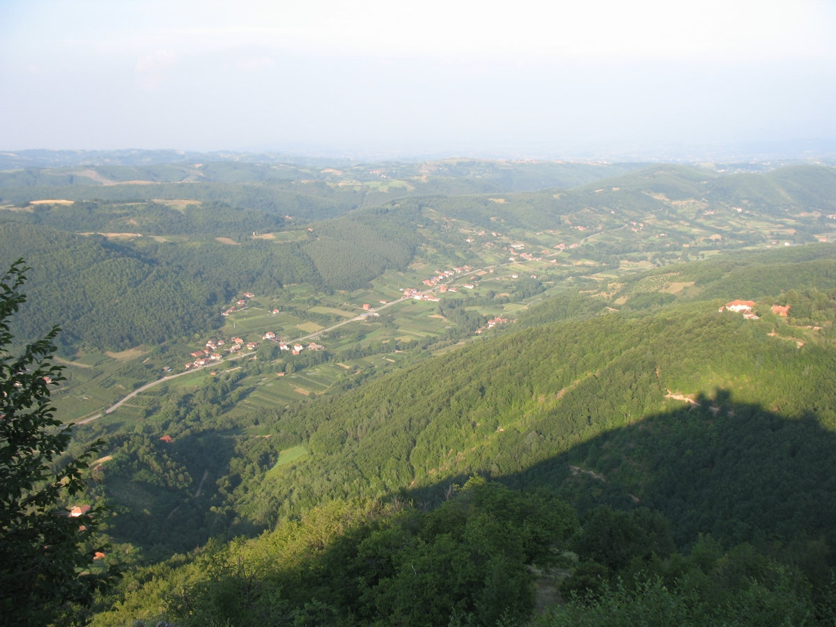 View from Koznik fortress on Rasina river valley (Milentija village),near Brus, Serbia.